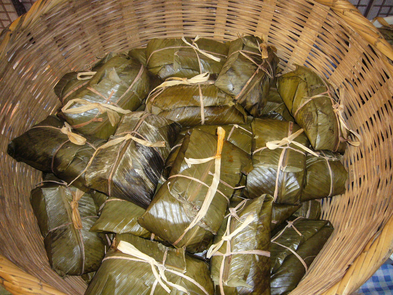 tamales wrapped in maxan leaves